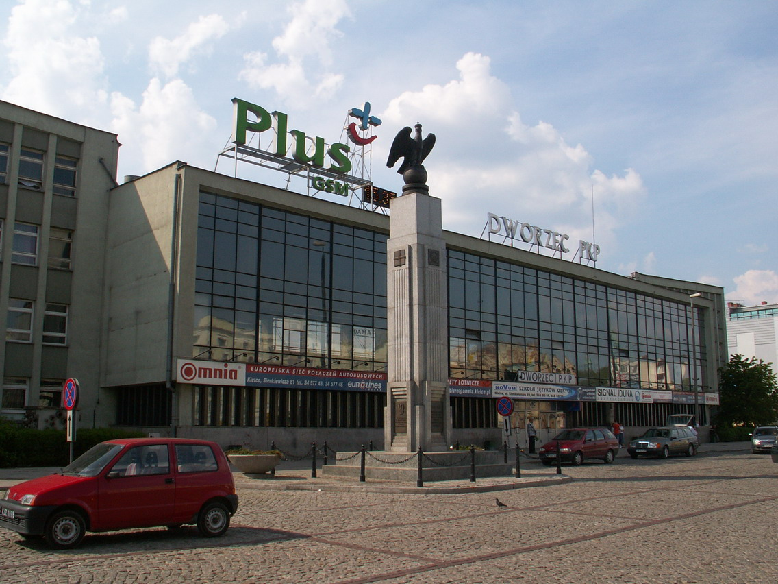 Railway Station in Kielce, Poland. Red Fiat Cinquecento.